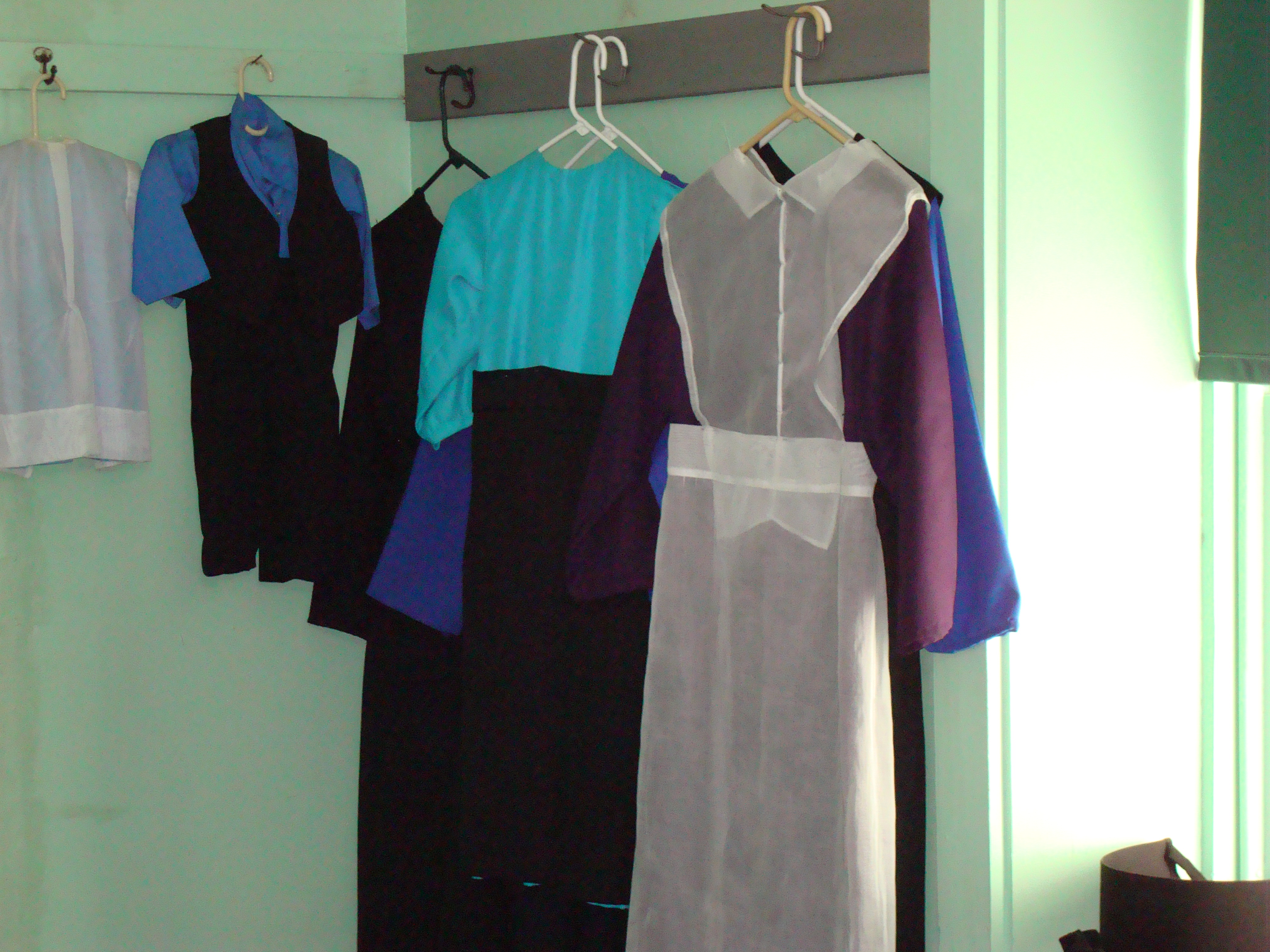 Amish clothing hanging in the bedroom at The Amish Village, Strasburg Township, Lancaster County, Pennsylvania, USA